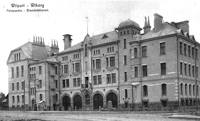 Main fire station in Vyborg. Design by architect Johan Blomqvist, 1906.